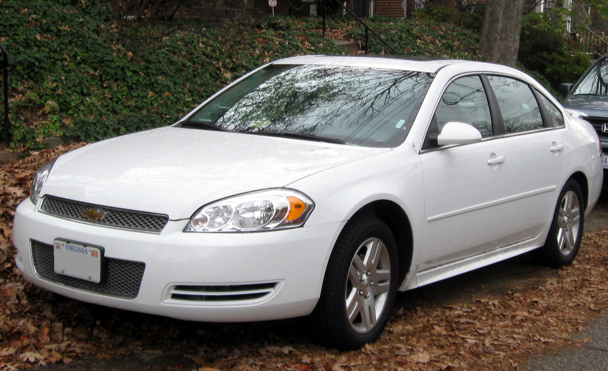 2012 Chevrolet Impala photographed in Washington, D.C., USA.